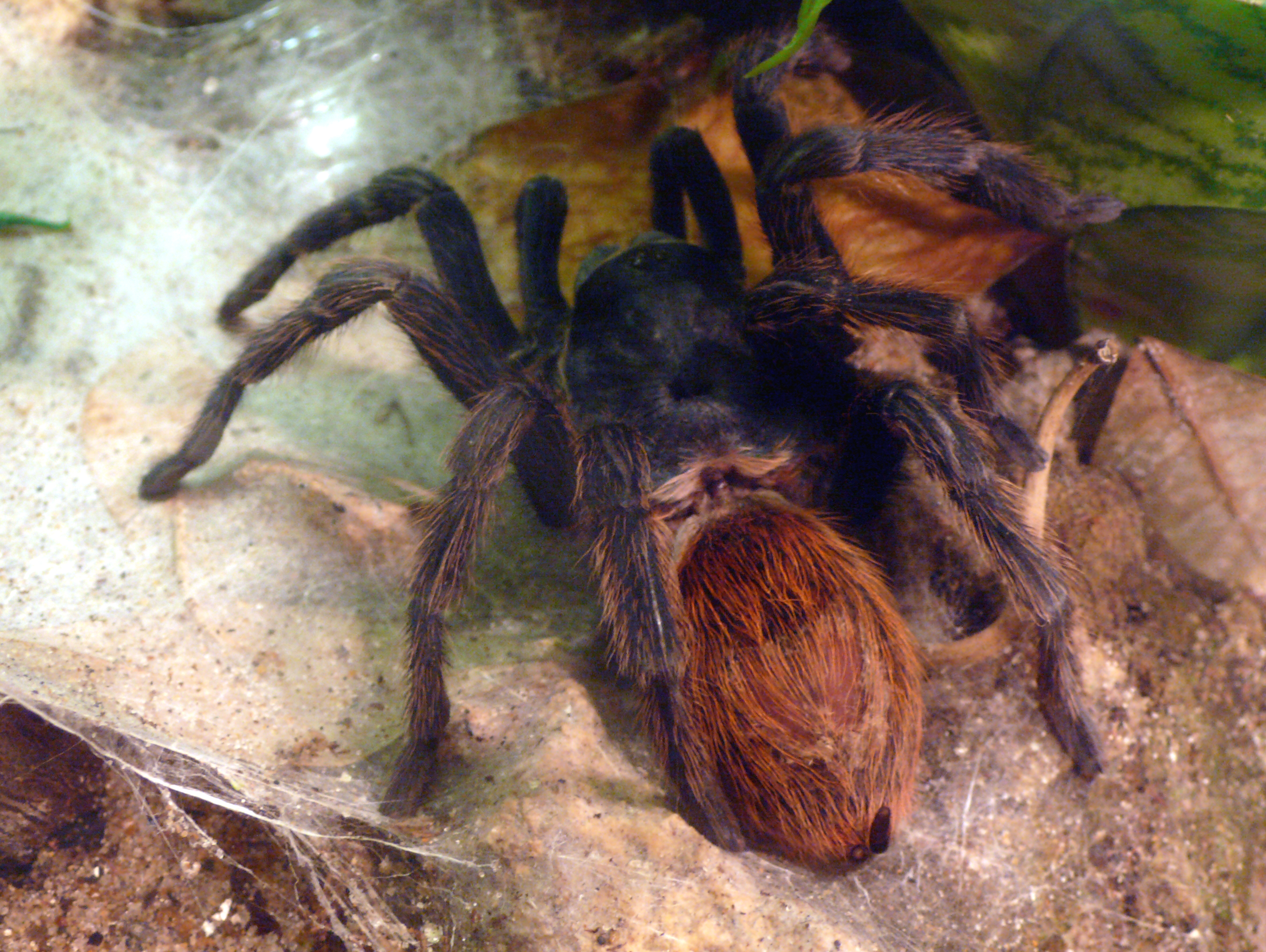 Greenbottle blue tarantula (Chromatopelma cyaneopubescens)